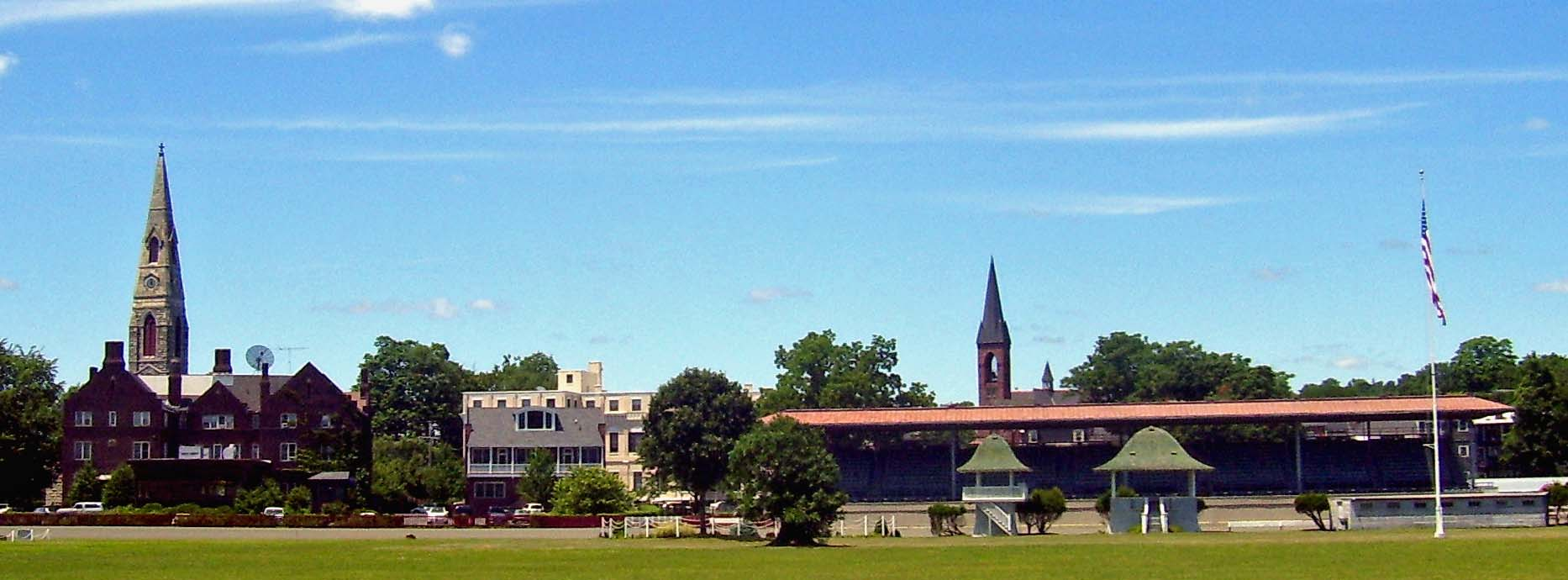 First Presbyterian Church, Goshen United Methodist and other buildings of downtown Goshen, NY, USA from the back stretch of the Historic Track.